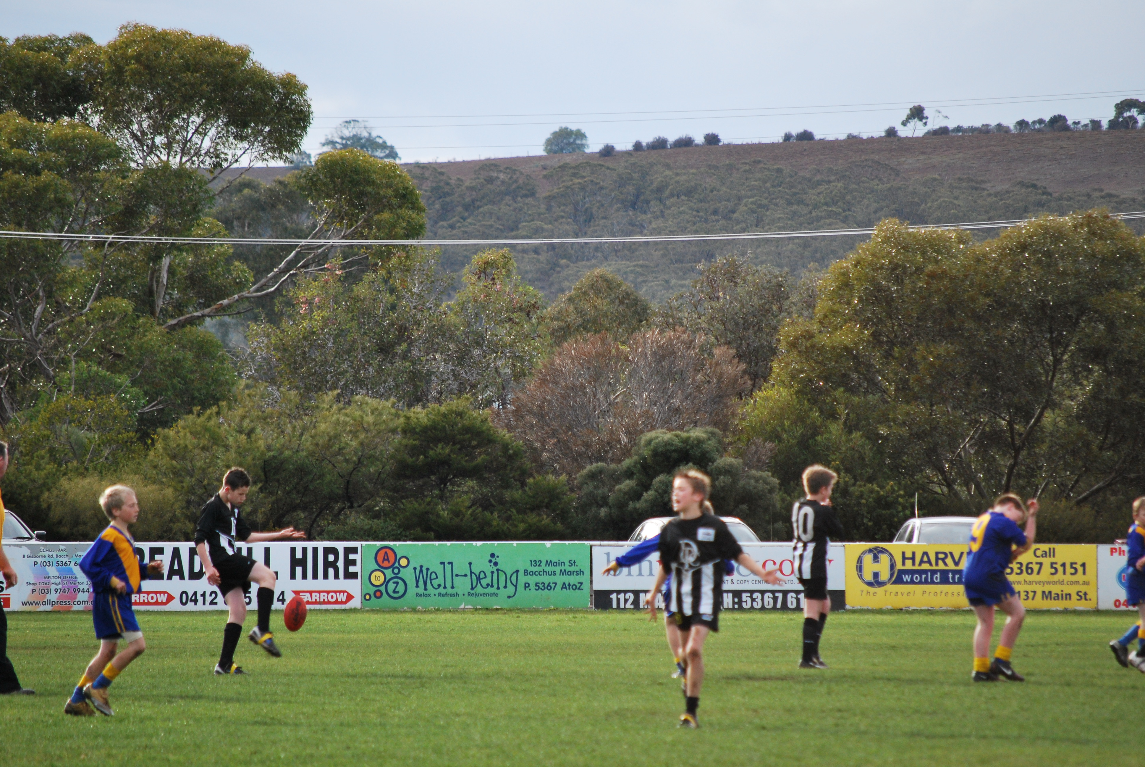 Darley Park during an under-12 Australian rules football match between Darley (black and white) and Sebastopol (blue and yellow)